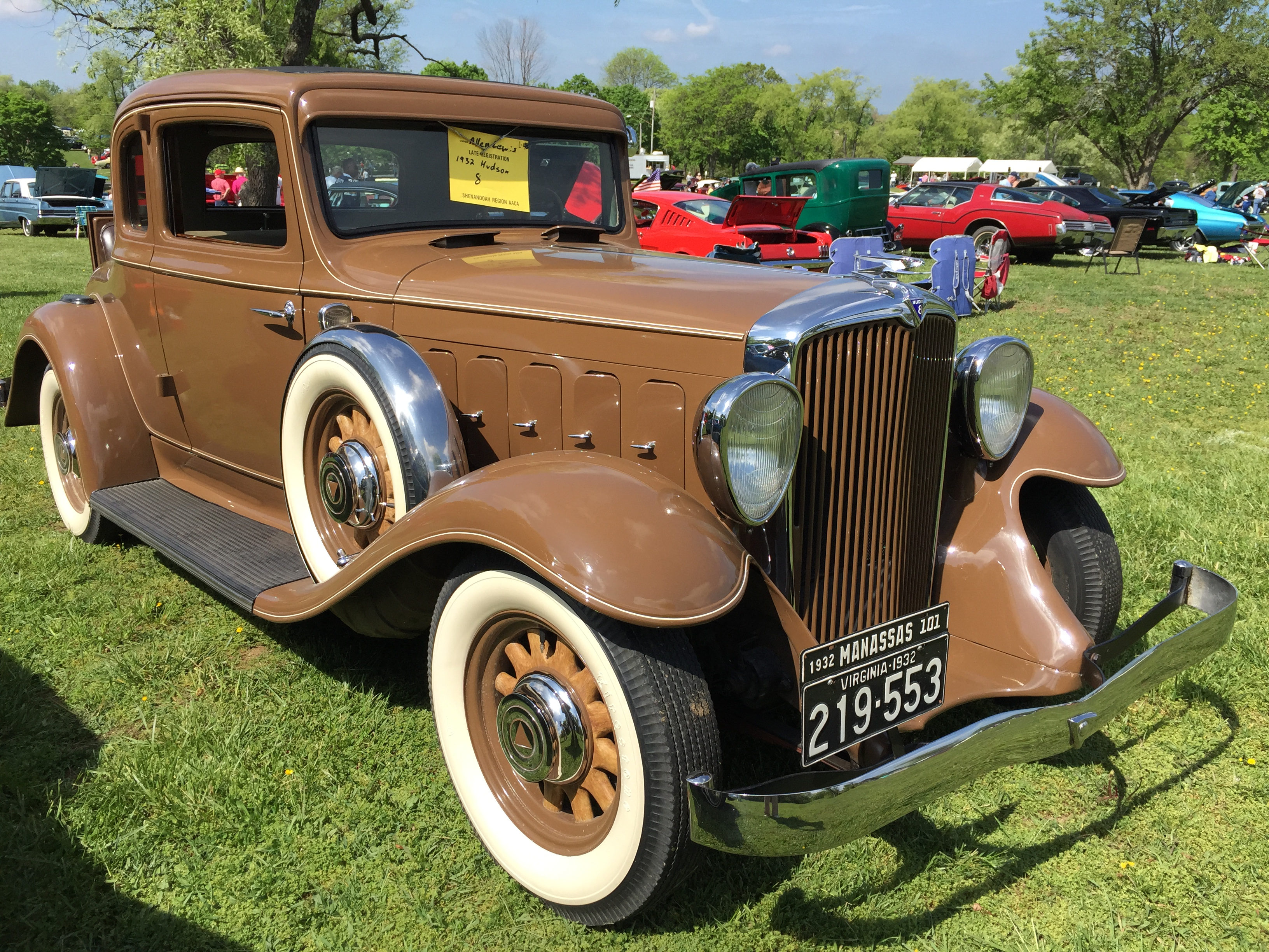 1932 Hudson Eight coupe with rumble seat - 233.7 CID 8-cylinder 119-inch wheelbase model. Finished in brown. Picture taken at the 2015 Shenandoah AACA meet